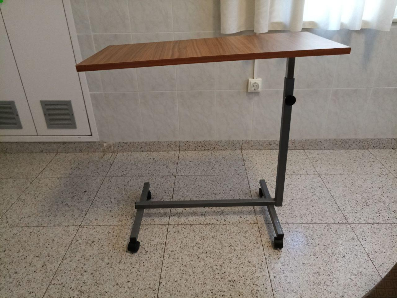 Portable Foldable and orientable Bed Table with retactable telescopic legs